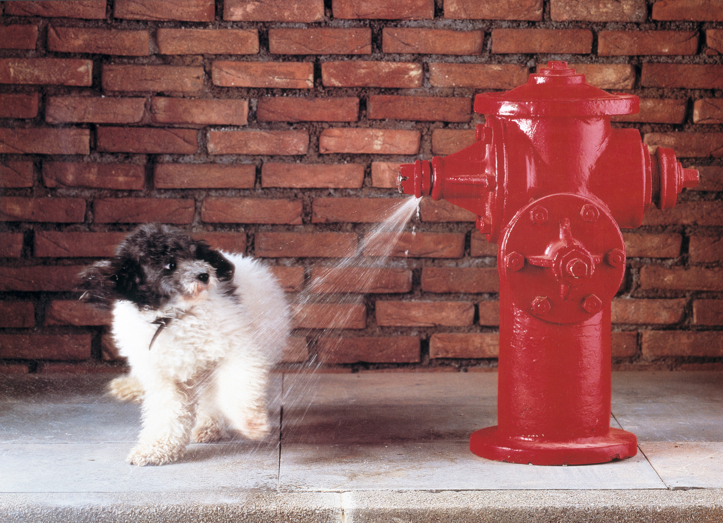 Otto Kasper Foto Dog and Hydrant